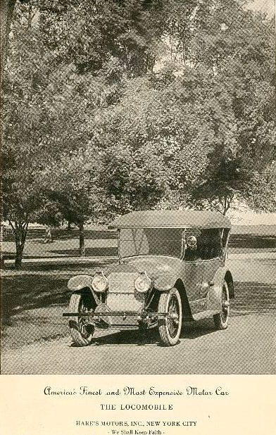 1920 ad for Locomobile automobile, "America's Finest and Most Expensive Motor Car", for Hare's Motors Inc. New York City